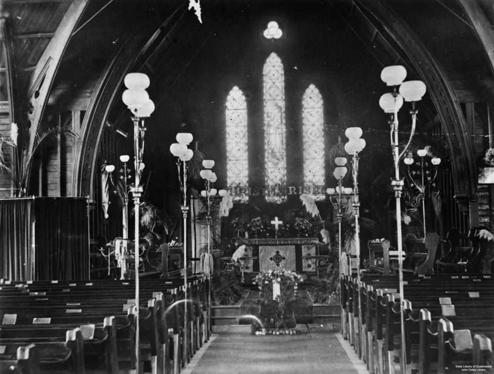 Interior view of the Holy Trinity Church of England, Mackay, Queensland, 1910 Interior view, looking towards the altar, of the Holy Trinity Church of England at Mackay, Queensland, in 1910. Stained glass windows are visible above the altar, and elaborate electric lights line the aisle. The altar is decorated with flowers and foliage.